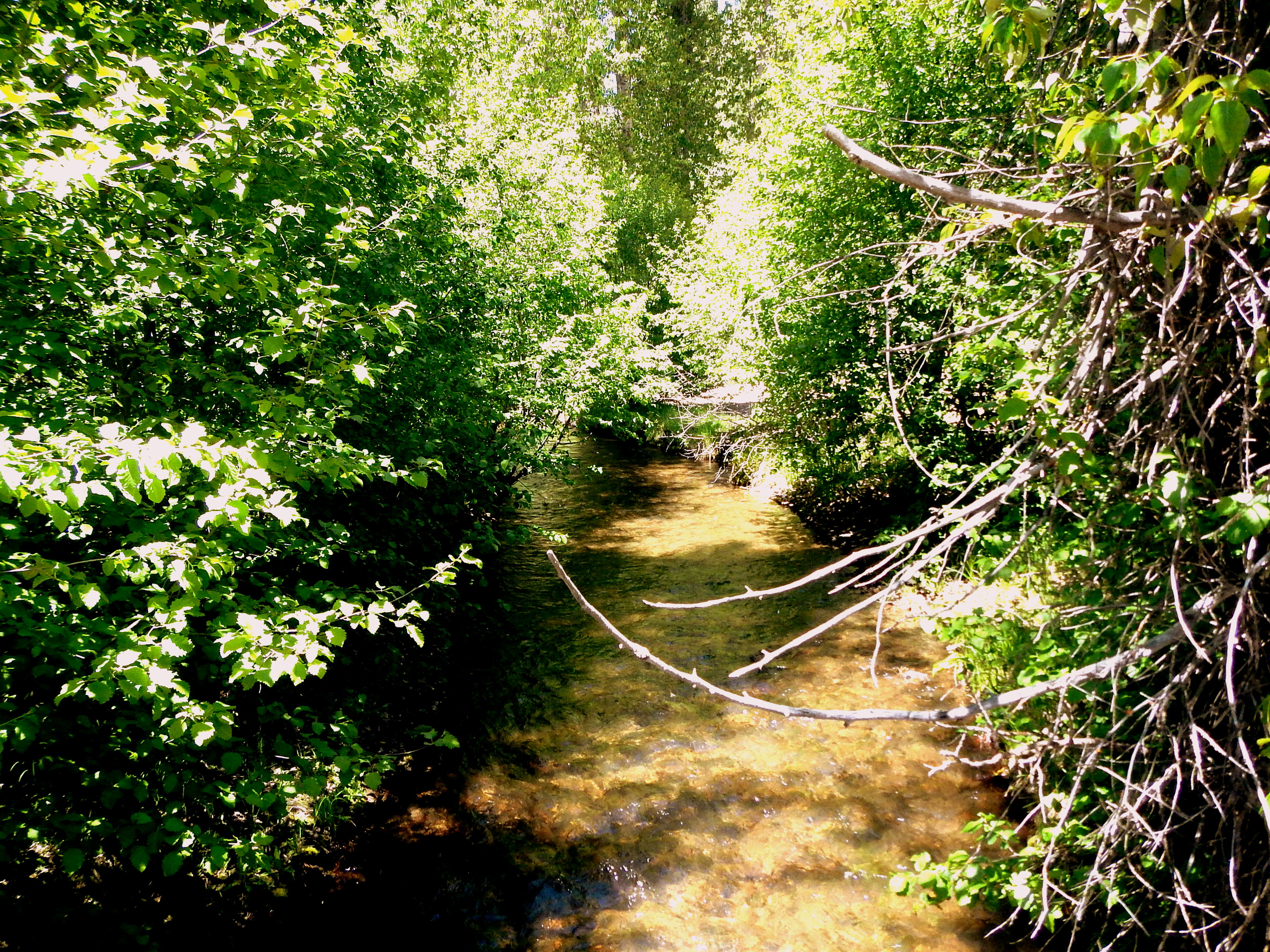 Photo credit Mark Meleason, ODF.